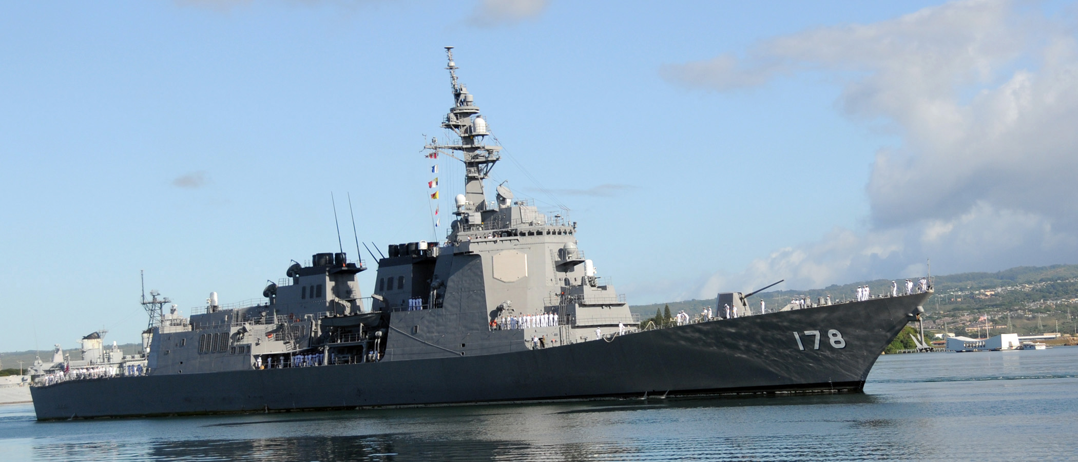 PEARL HARBOR (Nov. 3, 2008) The Japan Maritime Self Defense Force guided-missile destroyer JS Ashigara (DDG-178) passes the USS Arizona Memorial as she makes her way pier side to Naval Station Pearl Harbor. Ashigara was commissioned on March 13, 2008 and is in Pearl Harbor for a port visit. U.S. Navy photo by Mass Communication Specialist 2nd Class Michael A. Lantron (Released)